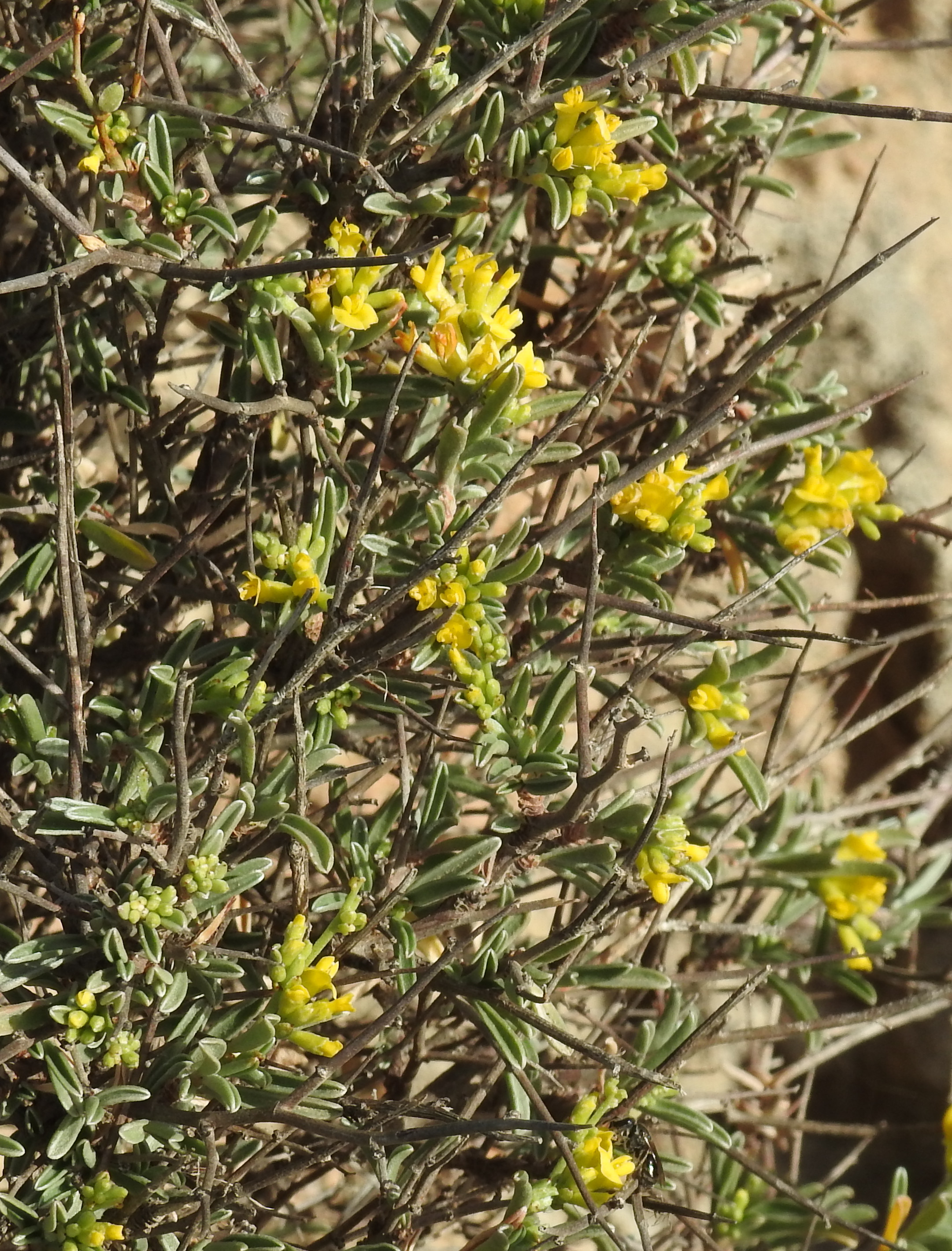 Anthyllis hermanniae, near Phalasarna, Crete, Greece